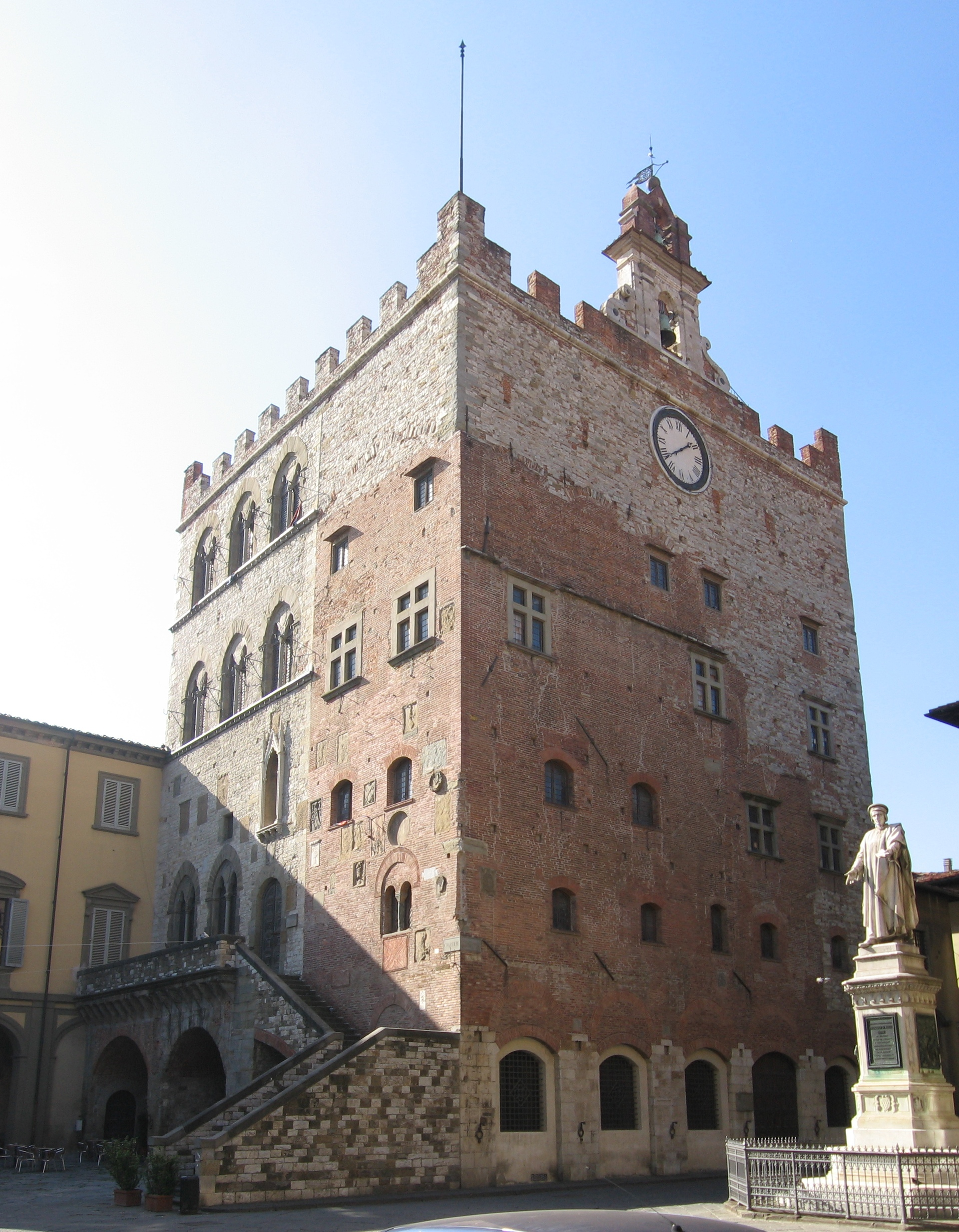 The Palazzo Pretorio of Prato